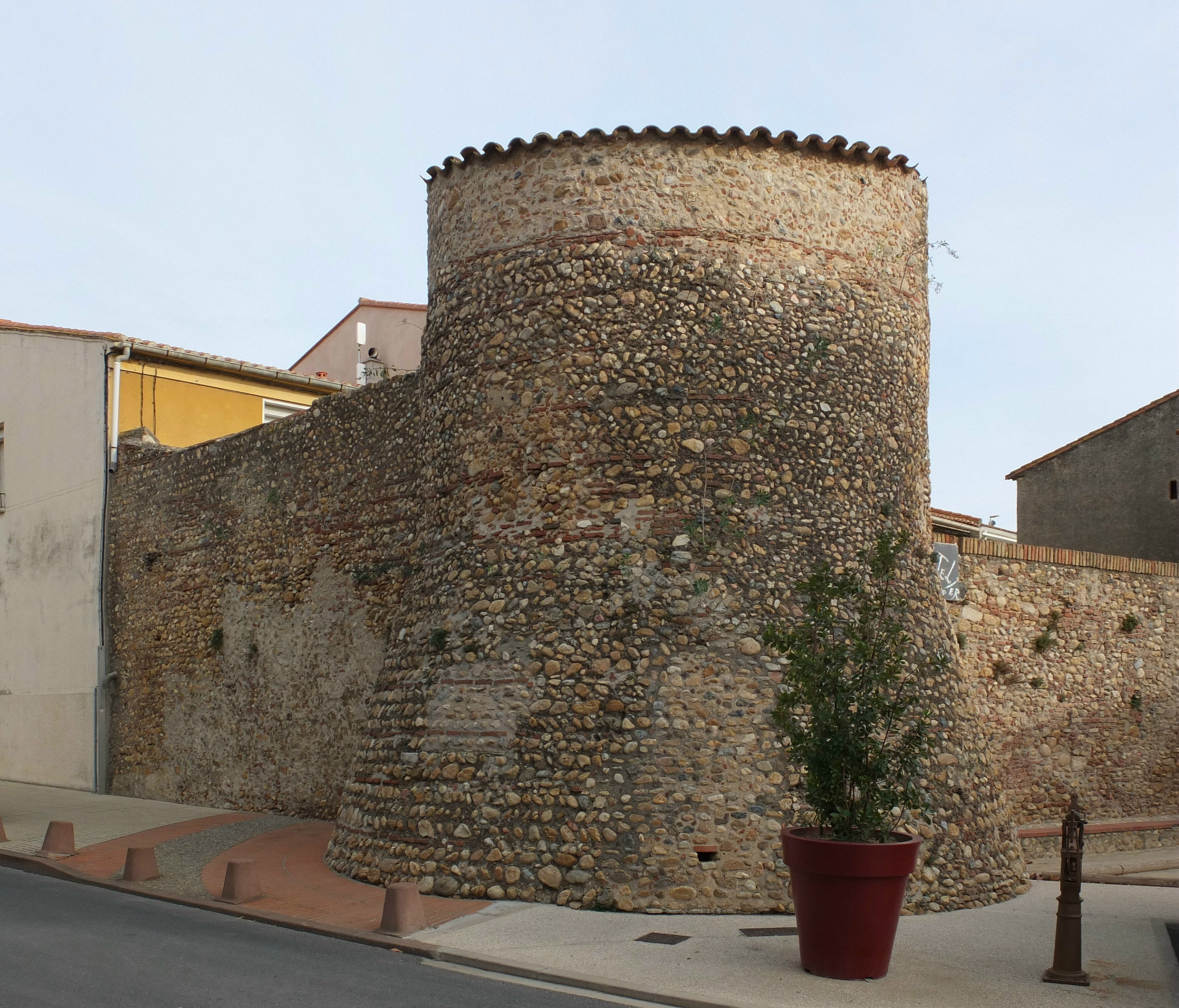 Tour de la Bascule at Canet-en-Roussillon, France (view SW)